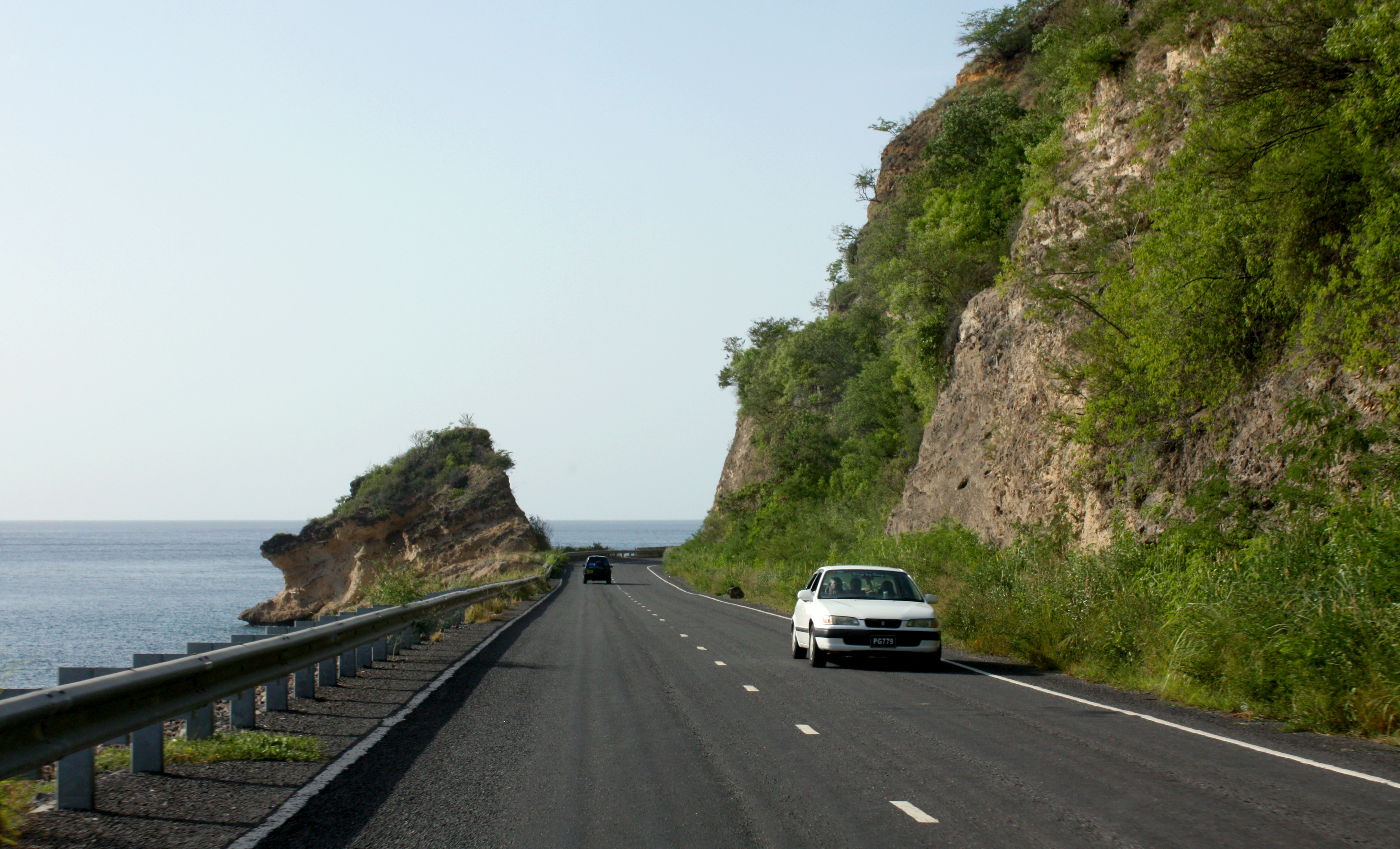 Main road on west coast of Dominica; Saint Peter Parish, in between Colihaut and Coulibistrie.